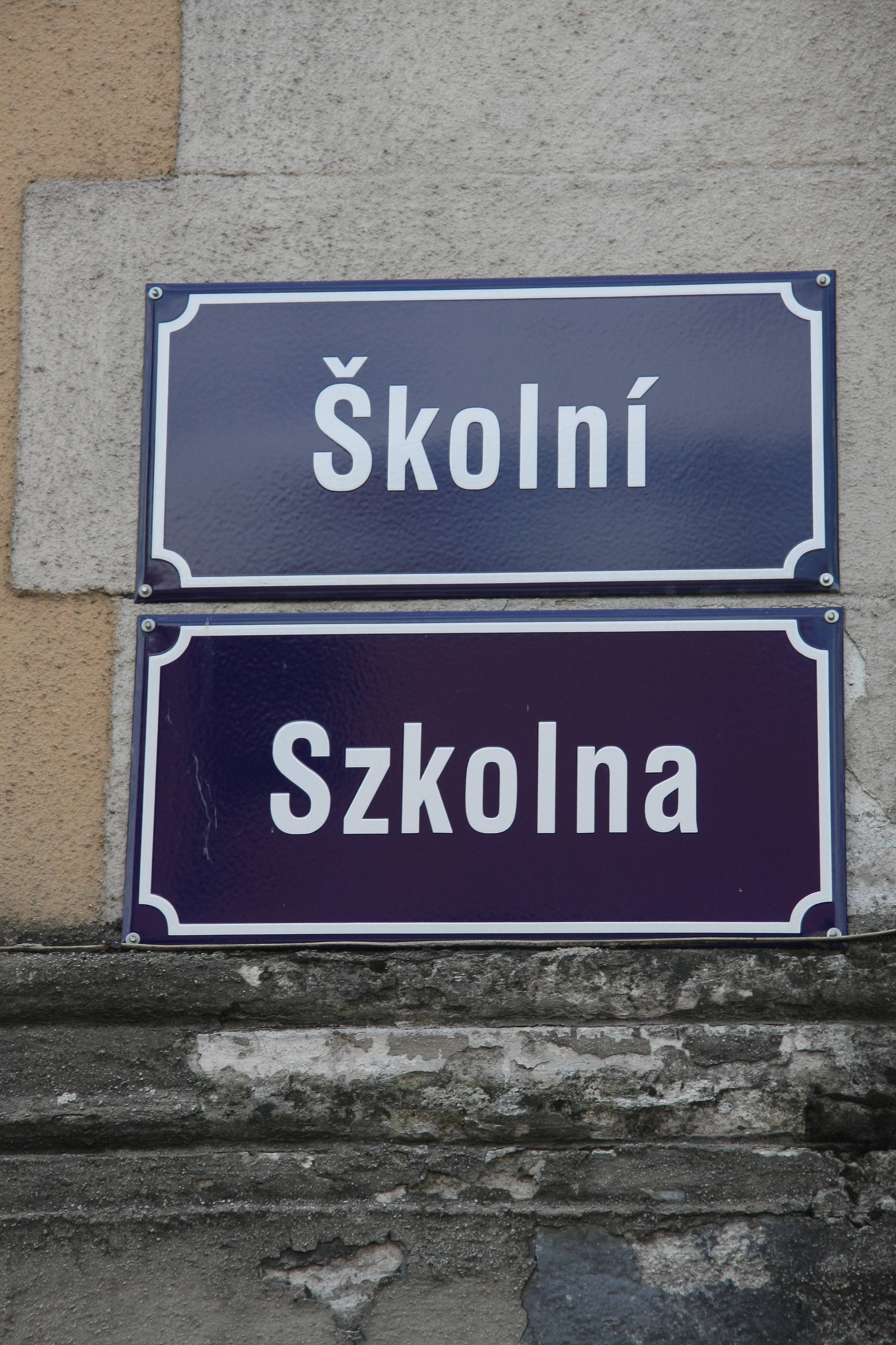 Chech and Polish road names in Jablunkov/Jabłonków